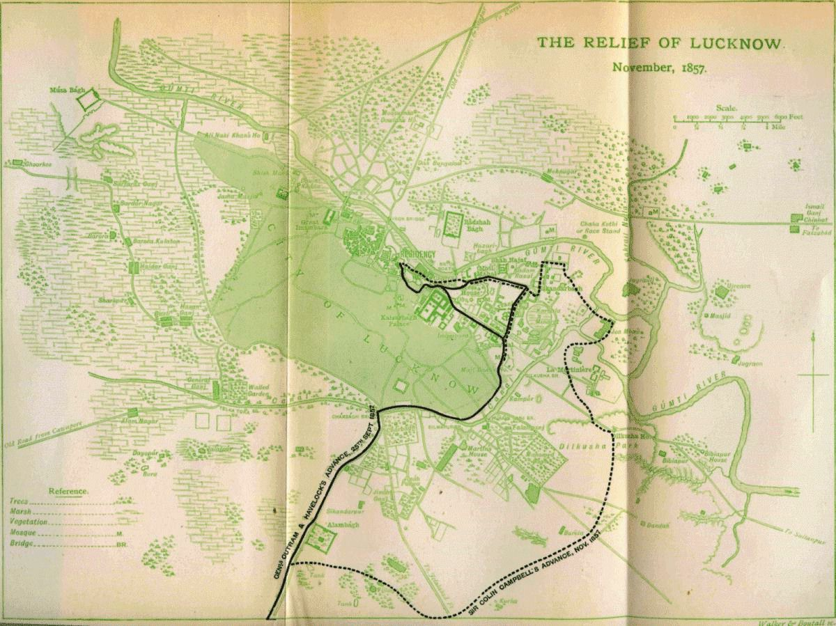 Map from 1897 book showing military positions in Lucknow India.